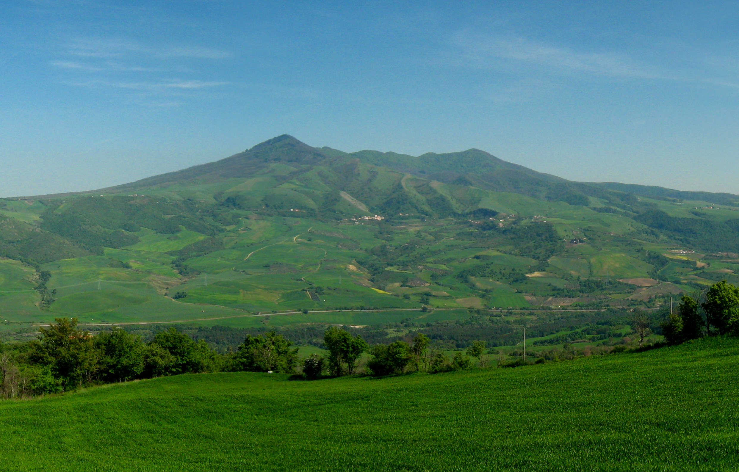 Monte Vulture.